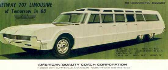 Jetway 707. 50 to 150 were made by American Quality Coach before low sales closed the company.